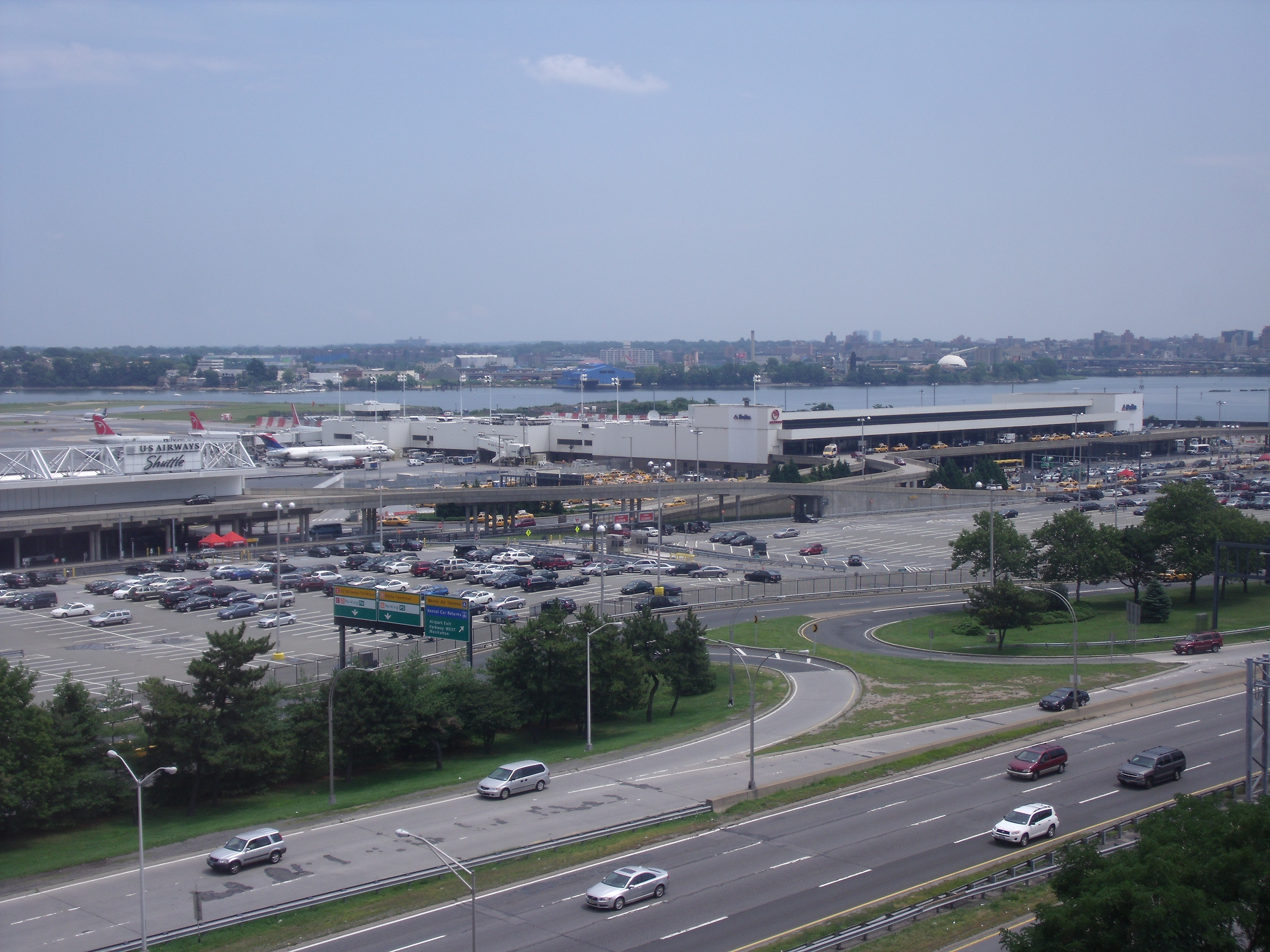 Delta Terminal